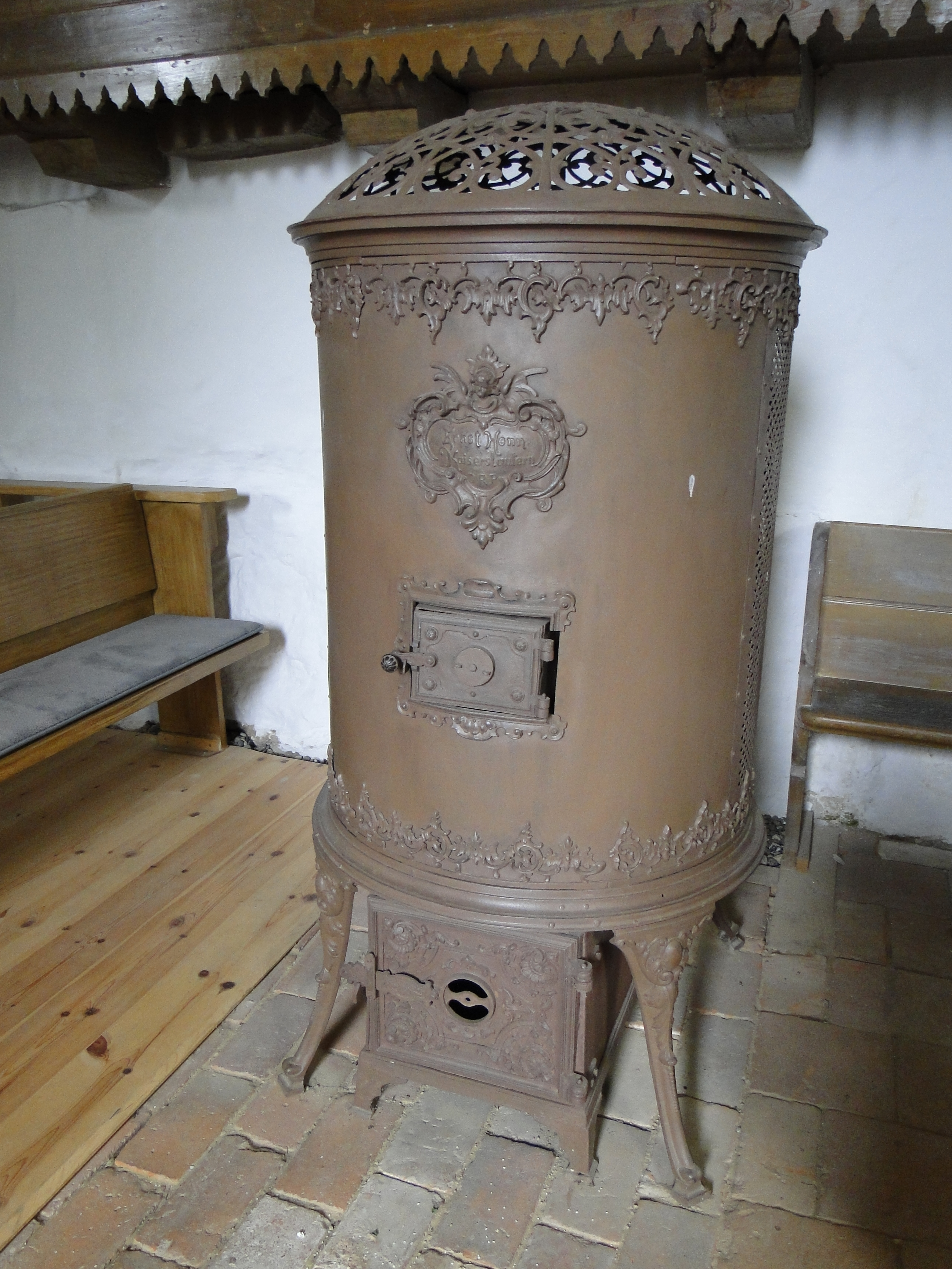 Church in Techentin, district Ludwigslust-Parchim, Mecklenburg-Vorpommern, Germany